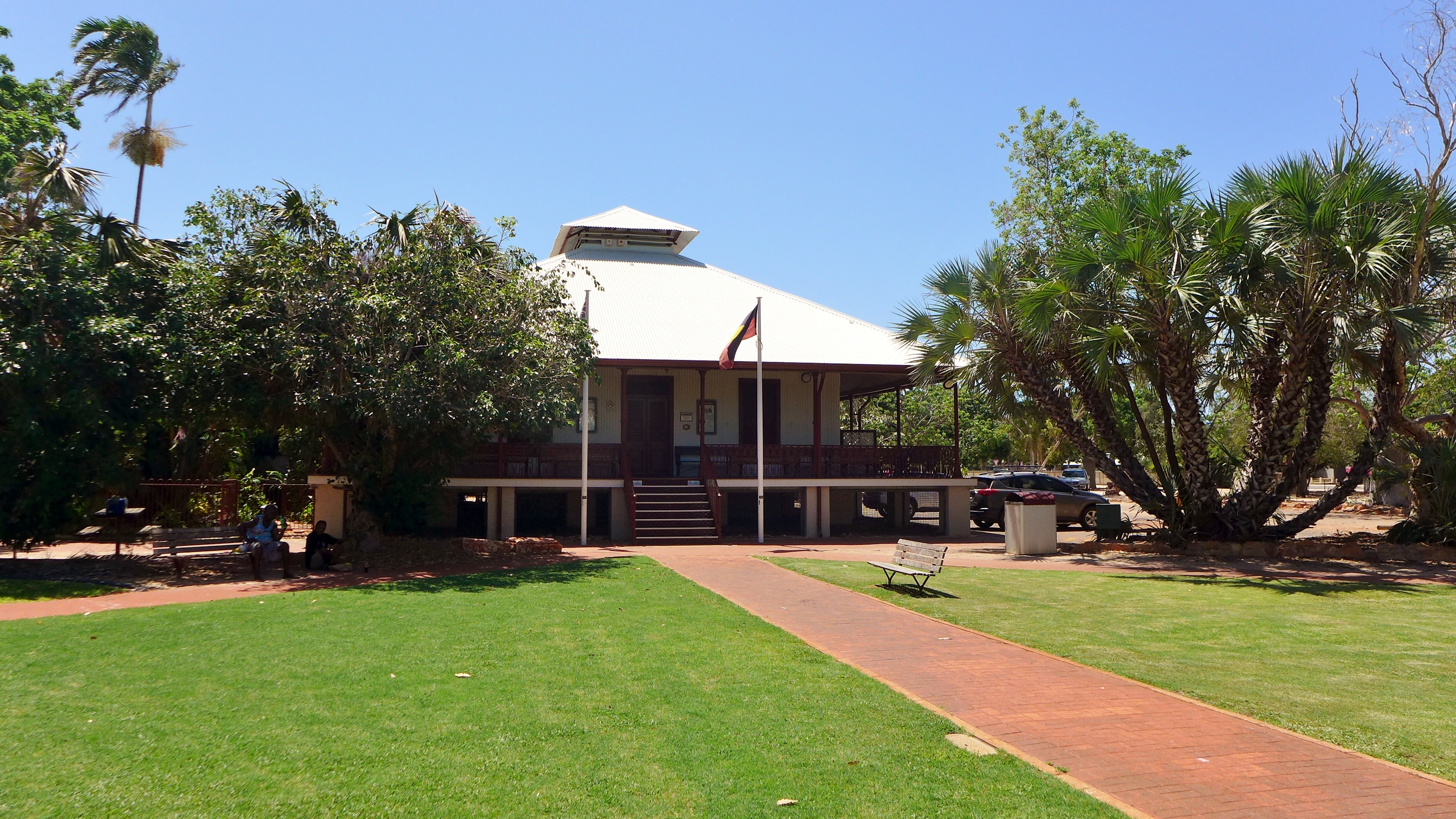 View of the Broome Courthouse, Broome, Western Australia